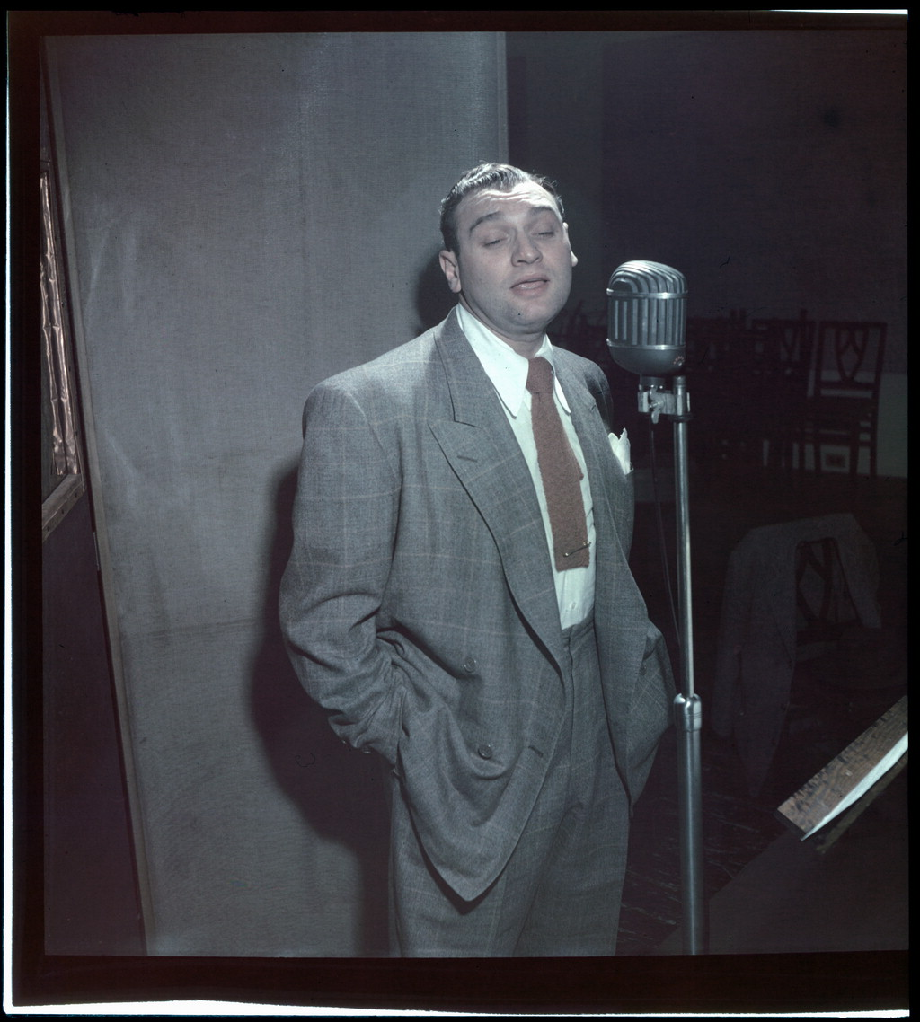 Gottlieb, William P., 1917-, photographer. [Portrait of Frankie Laine, New York, N.Y., between 1946 and 1948] 1 transparency : film, color. ; 2 1/4 x 2 1/4 in. Notes: Gottlieb Collection Assignment No. 196 Purchase William P. Gottlieb Forms part of: William P. Gottlieb Collection (Library of Congress). Subjects: Laine, Frankie, 1913- Jazz musicians--1940-1950. Jazz singers--1940-1950. Format: Portrait photographs--1940-1950. Film transparencies--1940-1950. Rights Info: Mr. Gottlieb has dedicated these works to the public domain, but rights of privacy and publicity may apply. Repository: (transparency) Library of Congress, Prints & Photographs Division, Washington D.C. 20540 USA, Part Of: William P. Gottlieb Collection (DLC) 99-401005 General information about the Gottlieb Collection is available at Persistent URL: Call Number: LC-GLB04- 1345 This work is from the William P. Gottlieb collection at the Library of Congress. Rights and restrictions.In accordance with the wishes of William Gottlieb, the photographs in this collection entered into the public domain on February 16, 2010.